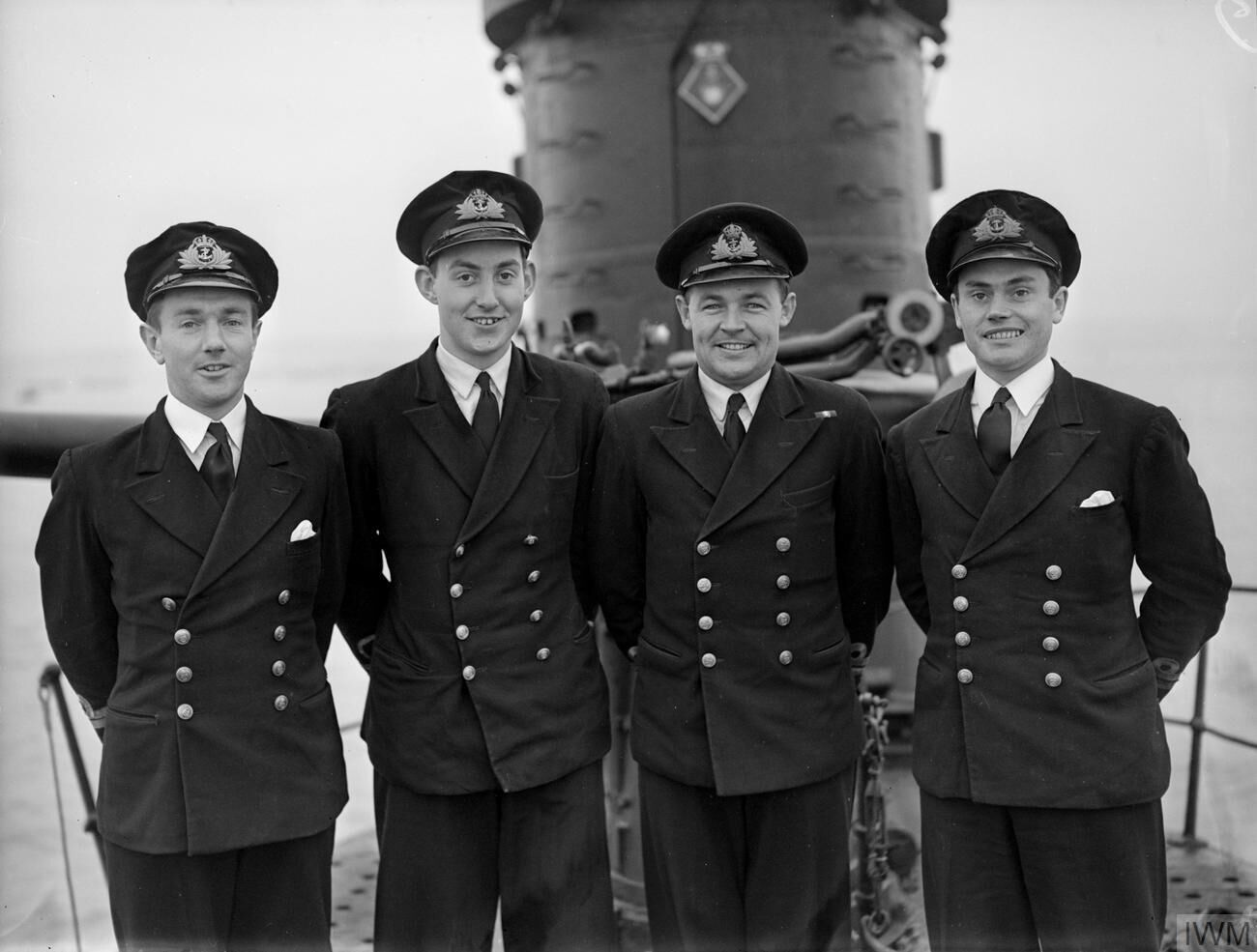 Officers of the UNSEEN. Left to right: Lieut W T J Fox, RN of Upton, Birkenhead, Sub Lieut R J Linden, RNVR, of Knaresborough, Yorks, Lieut M L C Crawford, DSC and bar, RN, of Southsea, the Commanding Officer of the UNSEEN, and his First Lieutenant, Lieut R T Sallis, RN, of Romford, Essex.